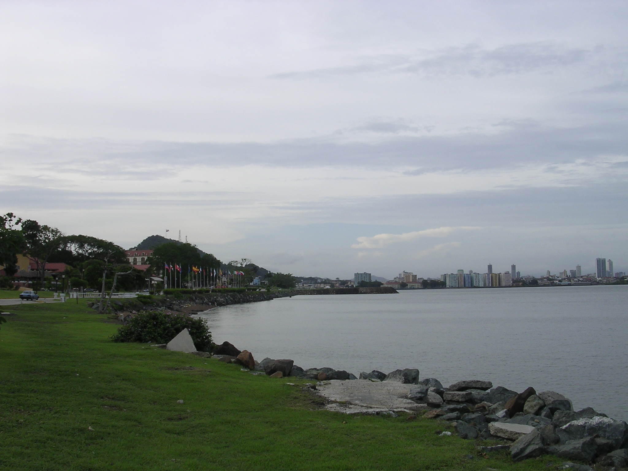 Taken from Causeway of Panama